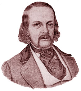 Portrait of author Orvar Odd